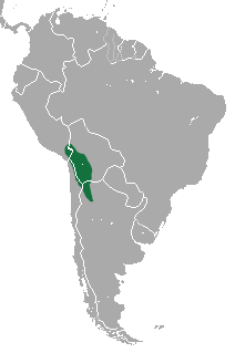 Andean Hairy Armadillo (Chaetophractus nationi) range